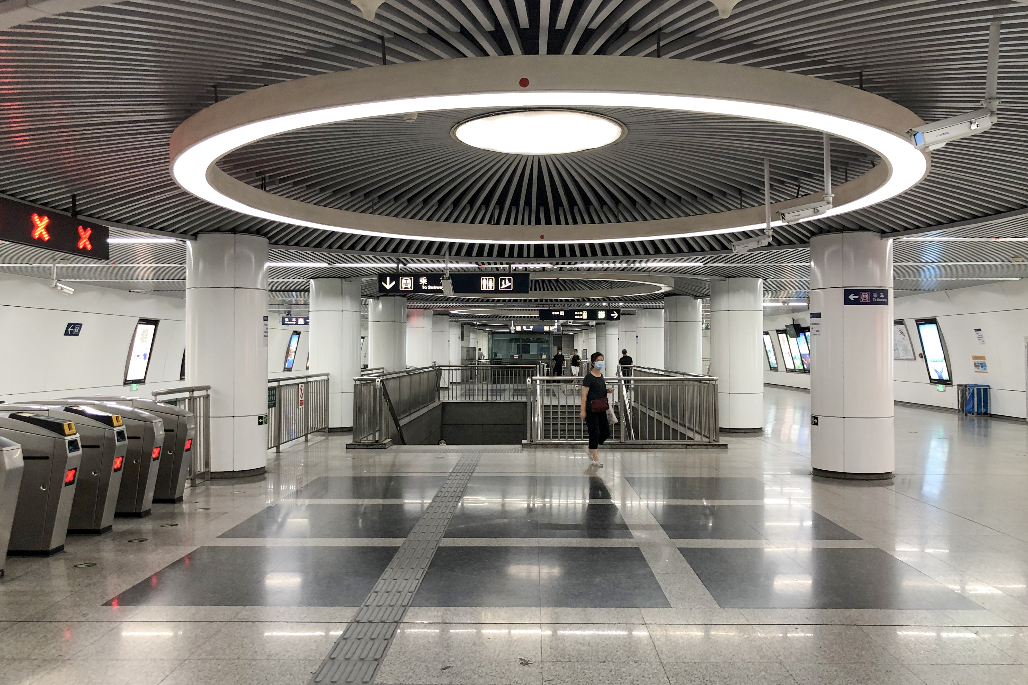 The ceiling... resembles the Temple of Heaven.